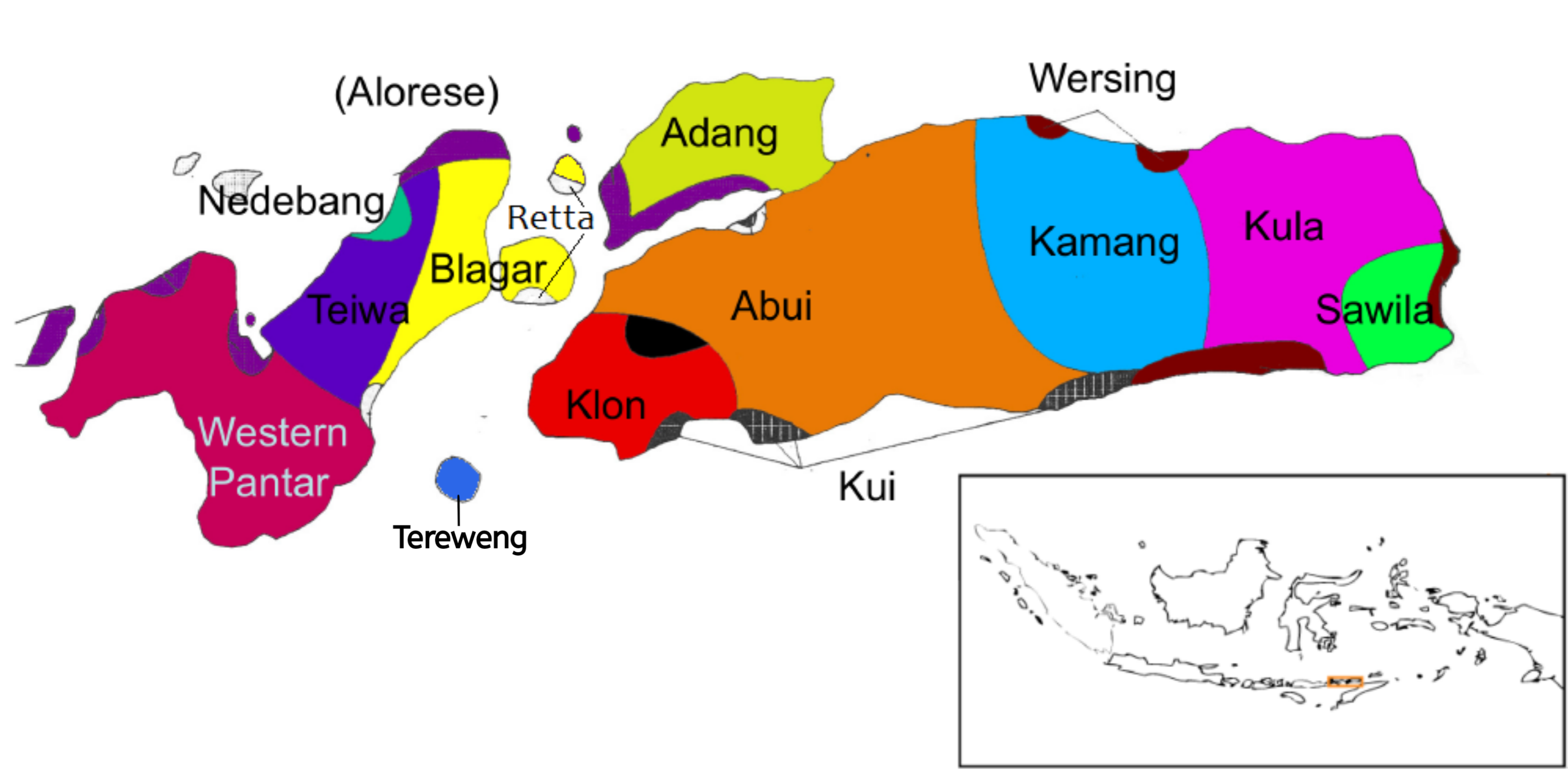 Map of the distribution of the Alor-Pantar languages of the Alor archipelago, Indonesia, based on information from Charles Grimes, Marian Klamer, and Frantisek Kratochvíl